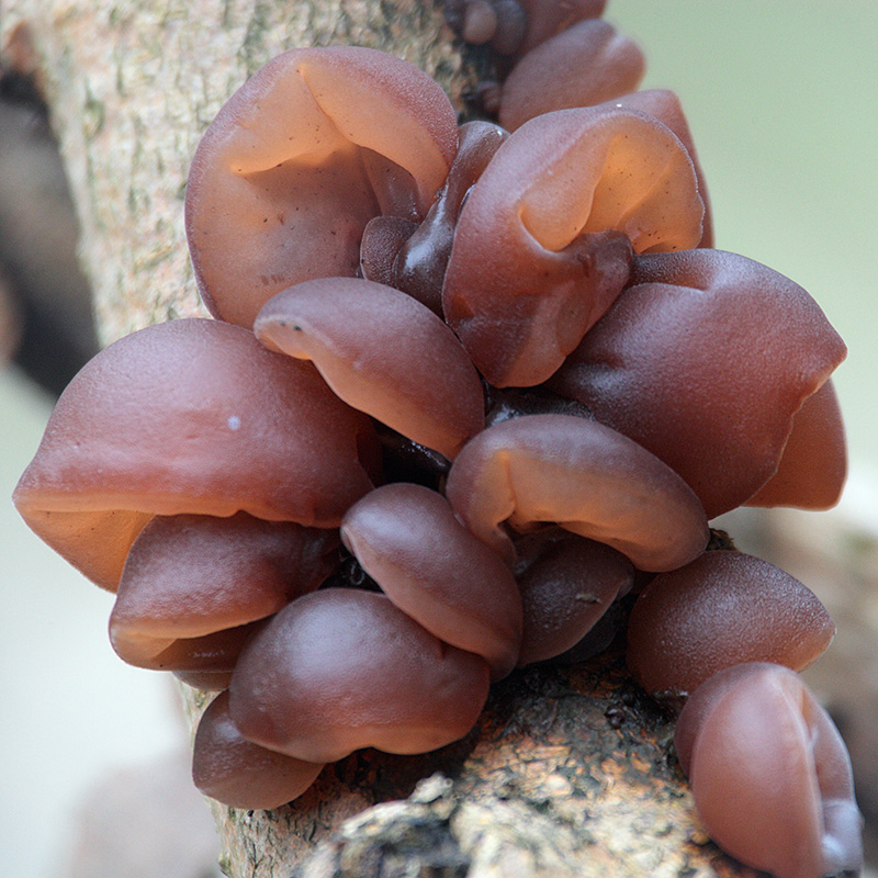 Jew's ear, Lodz(Poland)